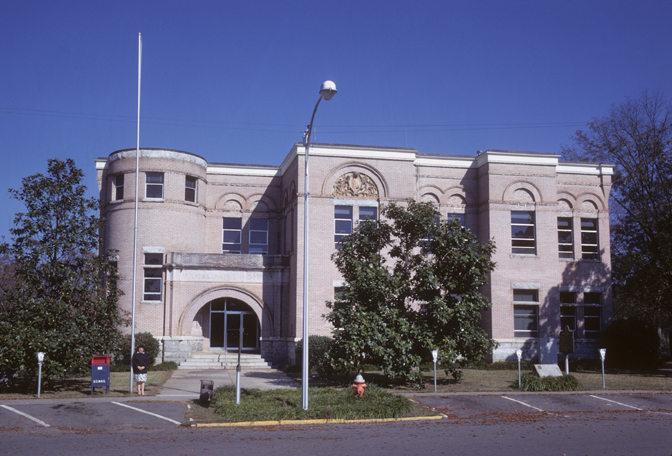 Wilkes County Courthouse, Wilkes County Georgia USA, in November 1969. A fire in 1958 destroyed the 1904 Wilkes County Courthouse's original roof and clock tower, leaving it with a flat roof until a restoration project in 1989.